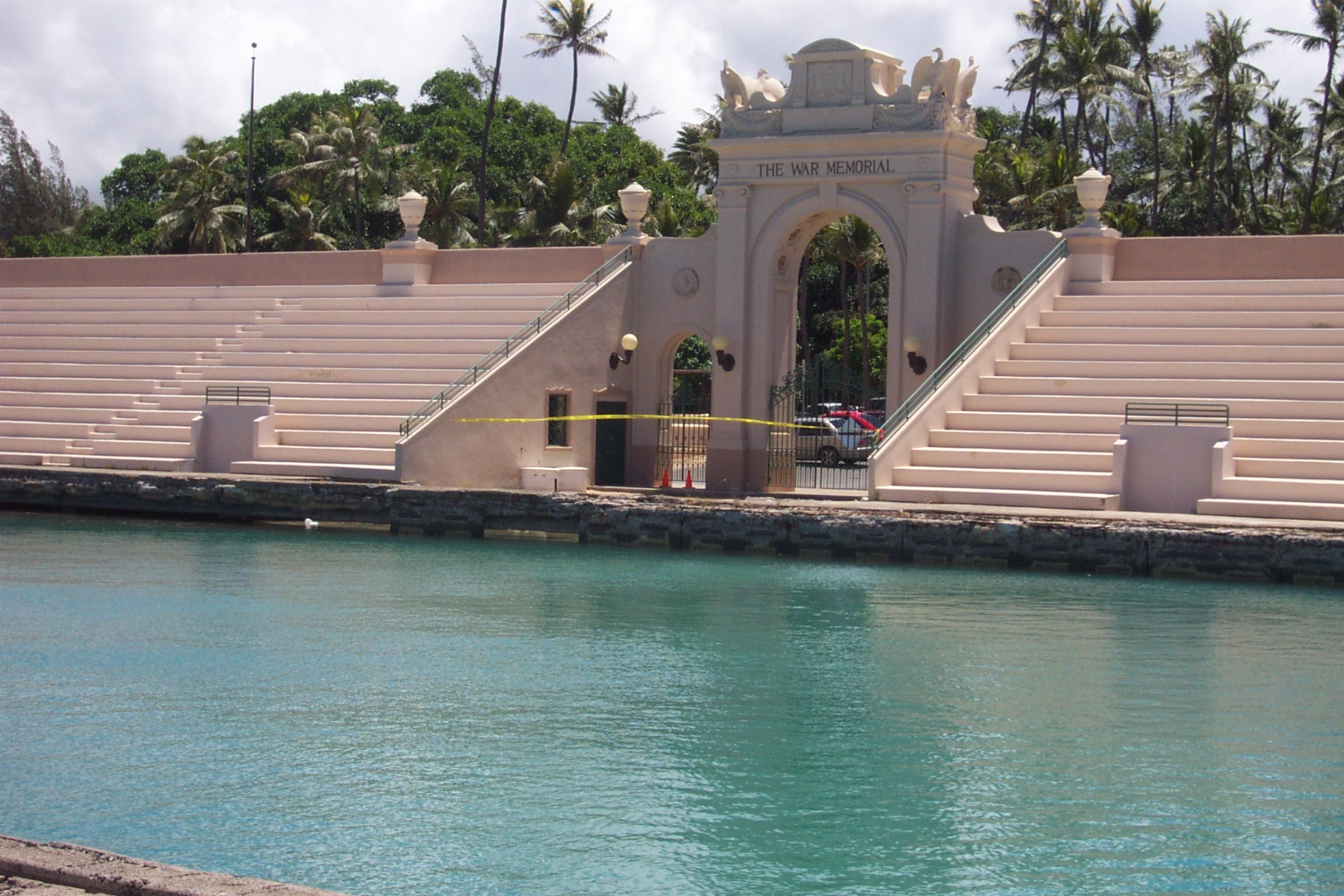 Image of the Waikiki Natatorium from Flickr.